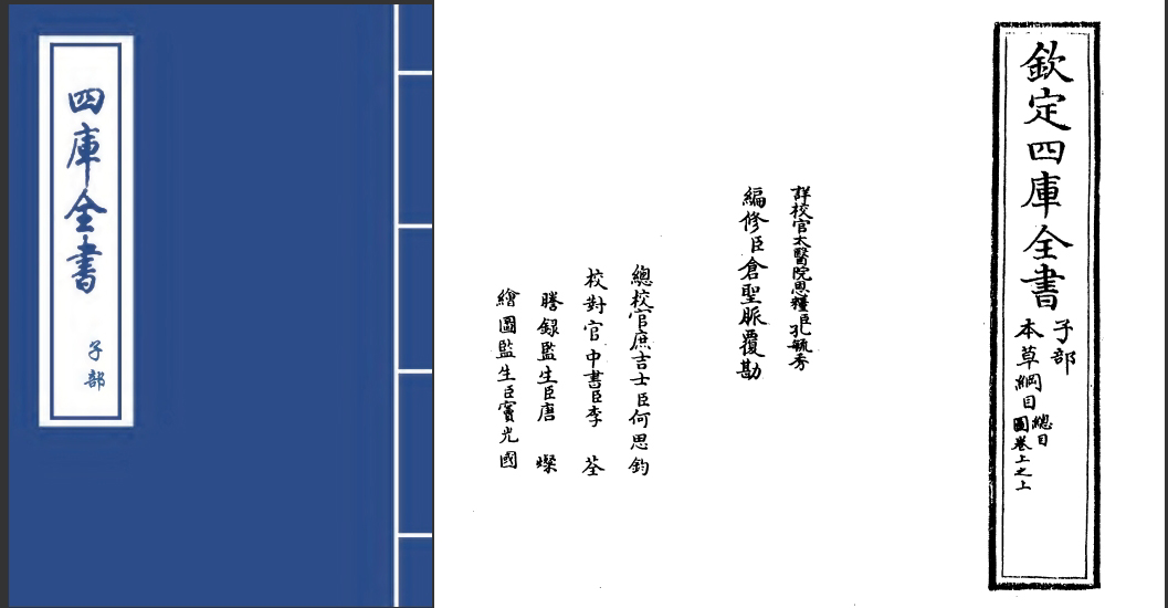 Bencao Ganmu